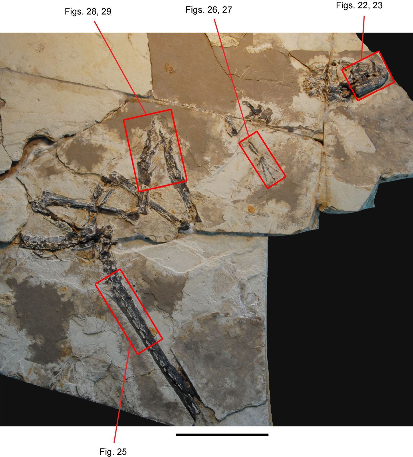 Partial skeleton of the heterodontosaurid Tianyulong confuciusi from the Lower Cretaceous Jehol Group of China. Partial skeleton mainly in right lateral view (IVPP V17090). Enlargements of subsequent figures are shown in red. Scale bar equals 10 cm.